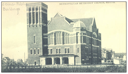 Designed by Darling and Pearson of Toronto. Built in 1906-1907 and destroyed in the 1912 Regina "Cyclone" and immediately reconstructed.